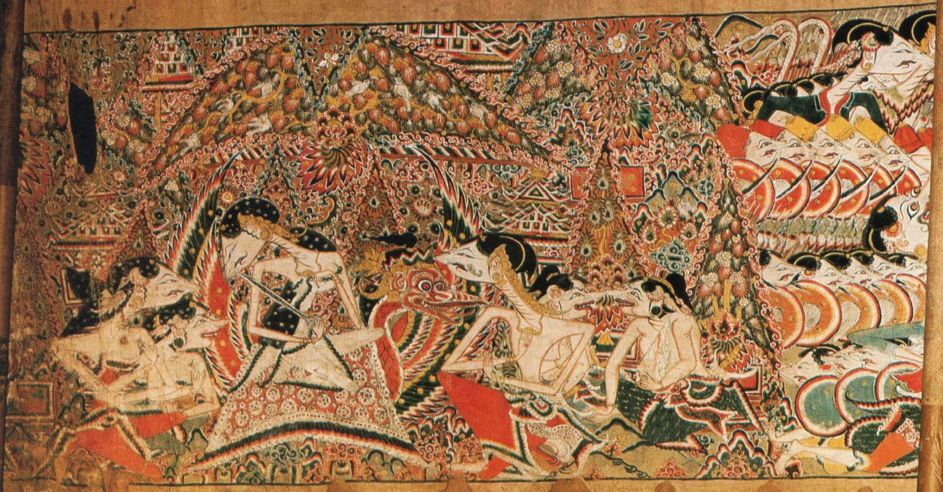 Wayang beber Gedompol, picture roll 5, scene 2. Princess Sekar Taji in palace garden approached by Klana